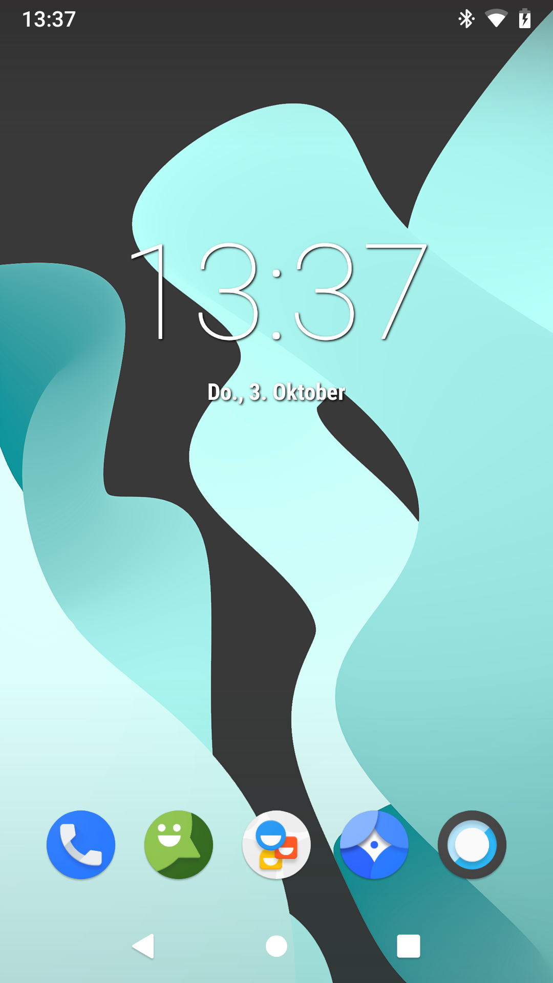 LineageOS 16.0 home screen after default install on a Sony Xperia XA2 (pioneer).